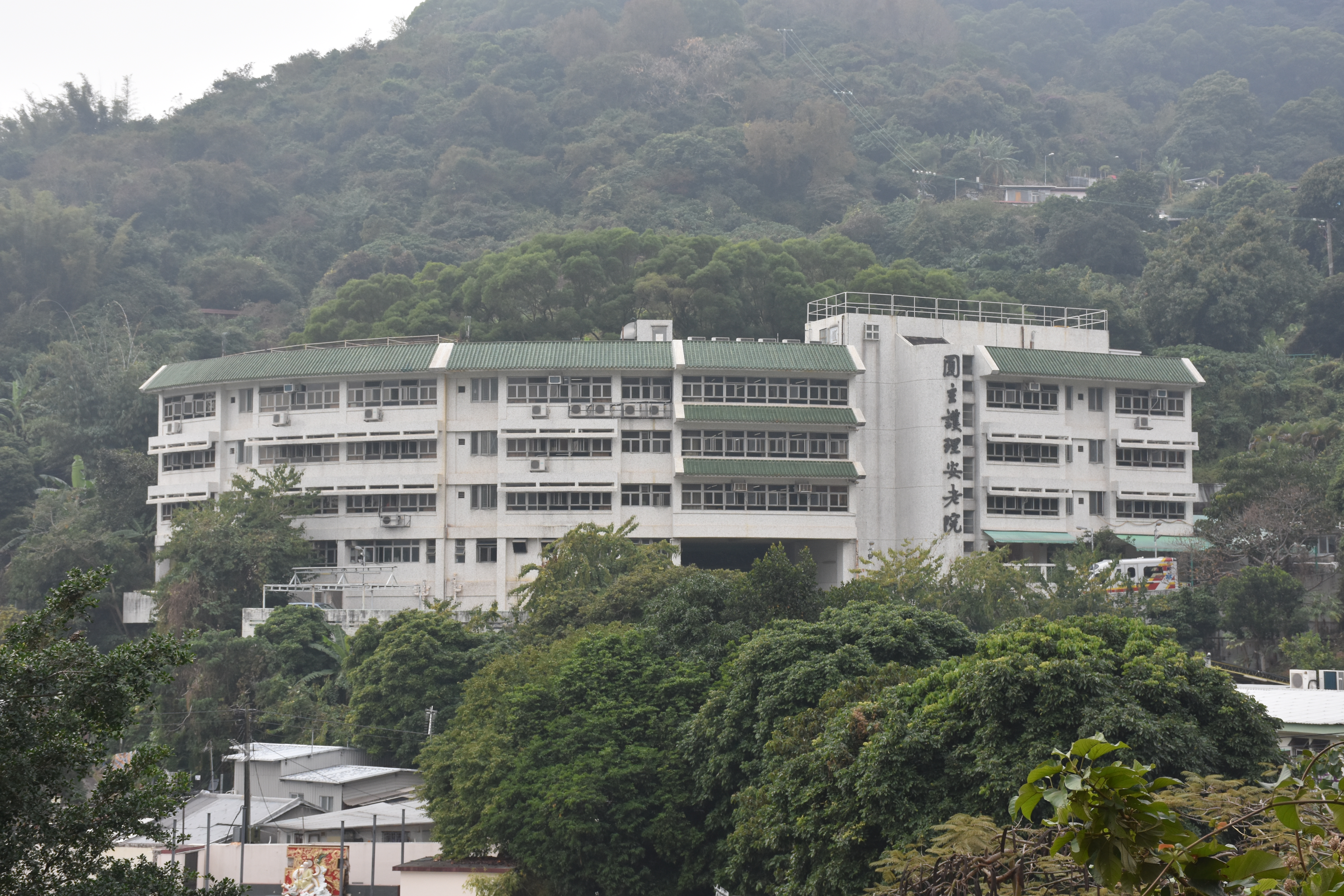 Yuen Yuen Elderly Hostel.